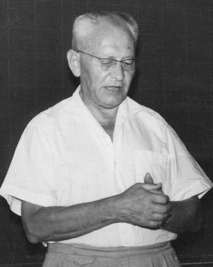 Alwin Walther, 1964 in his Institut für Praktische Mathematik at Darmstadt.